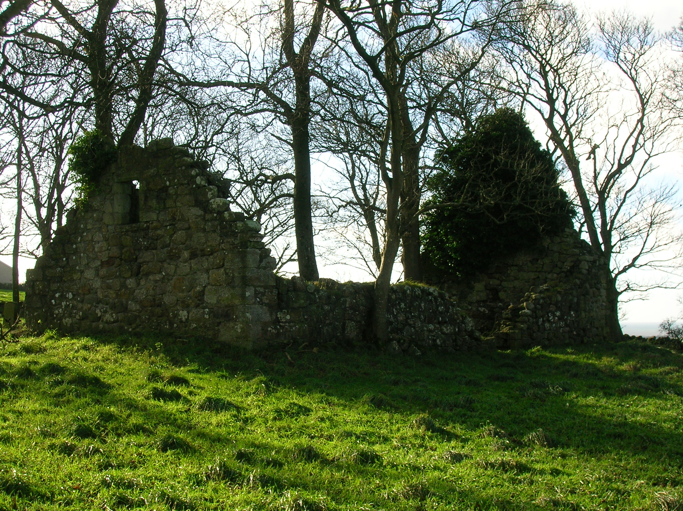 Barnweill Church ruins as seen from the entrance lane, Craigie, South Ayrshire, Scotland